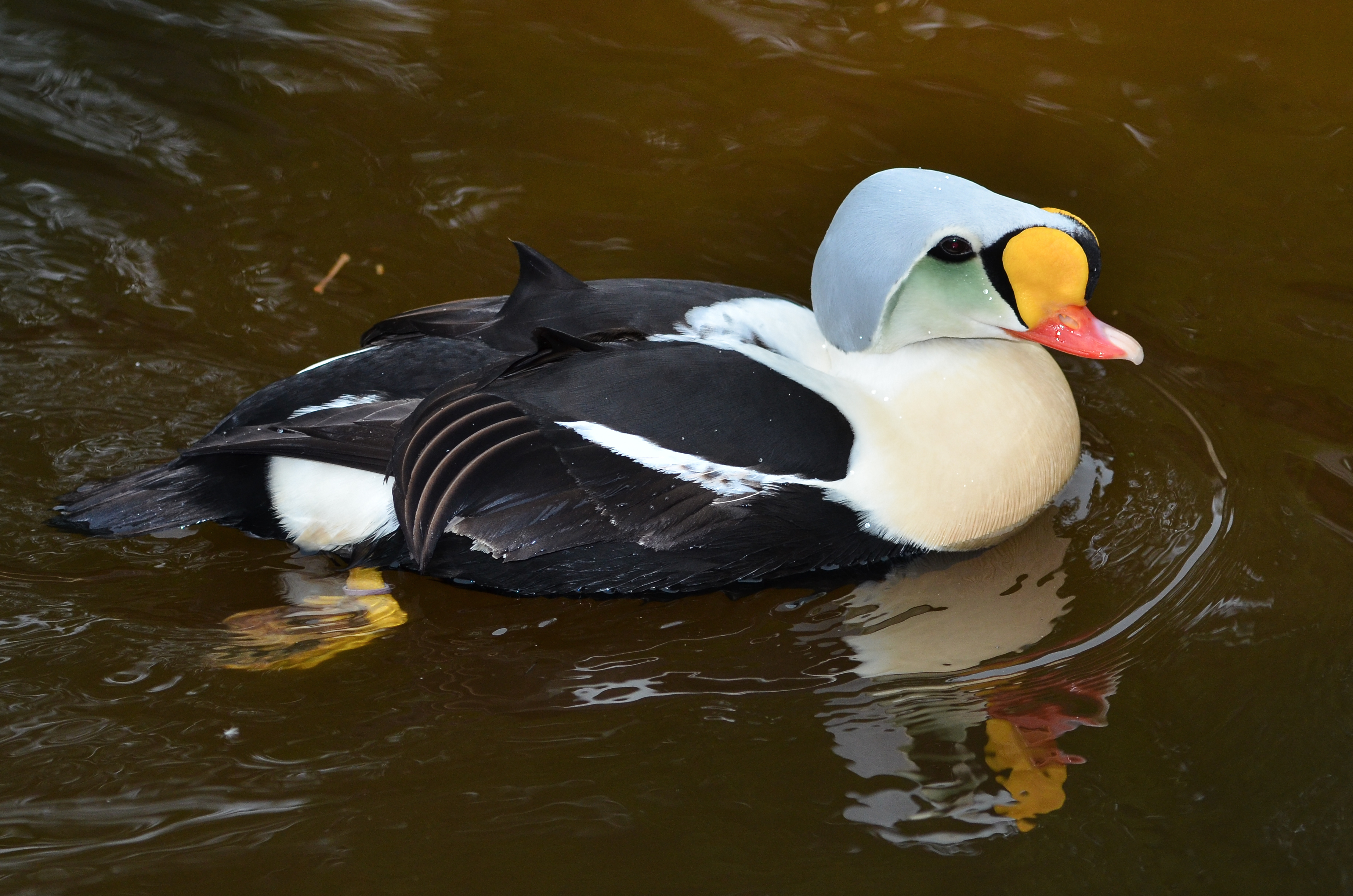 King Eider (Somateria spectabilis) (male) at Weltvogelpark Walsrode (Walsrode Bird Park, Germany)